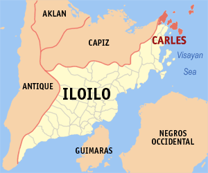 Map of Iloilo showing the location of Carles